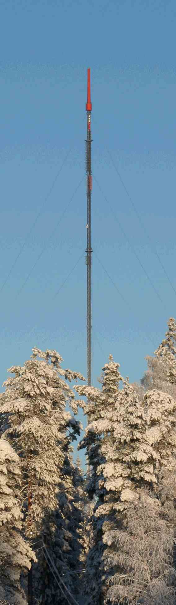 The Tiirismaa radio and television mast in Hollola, Finland.